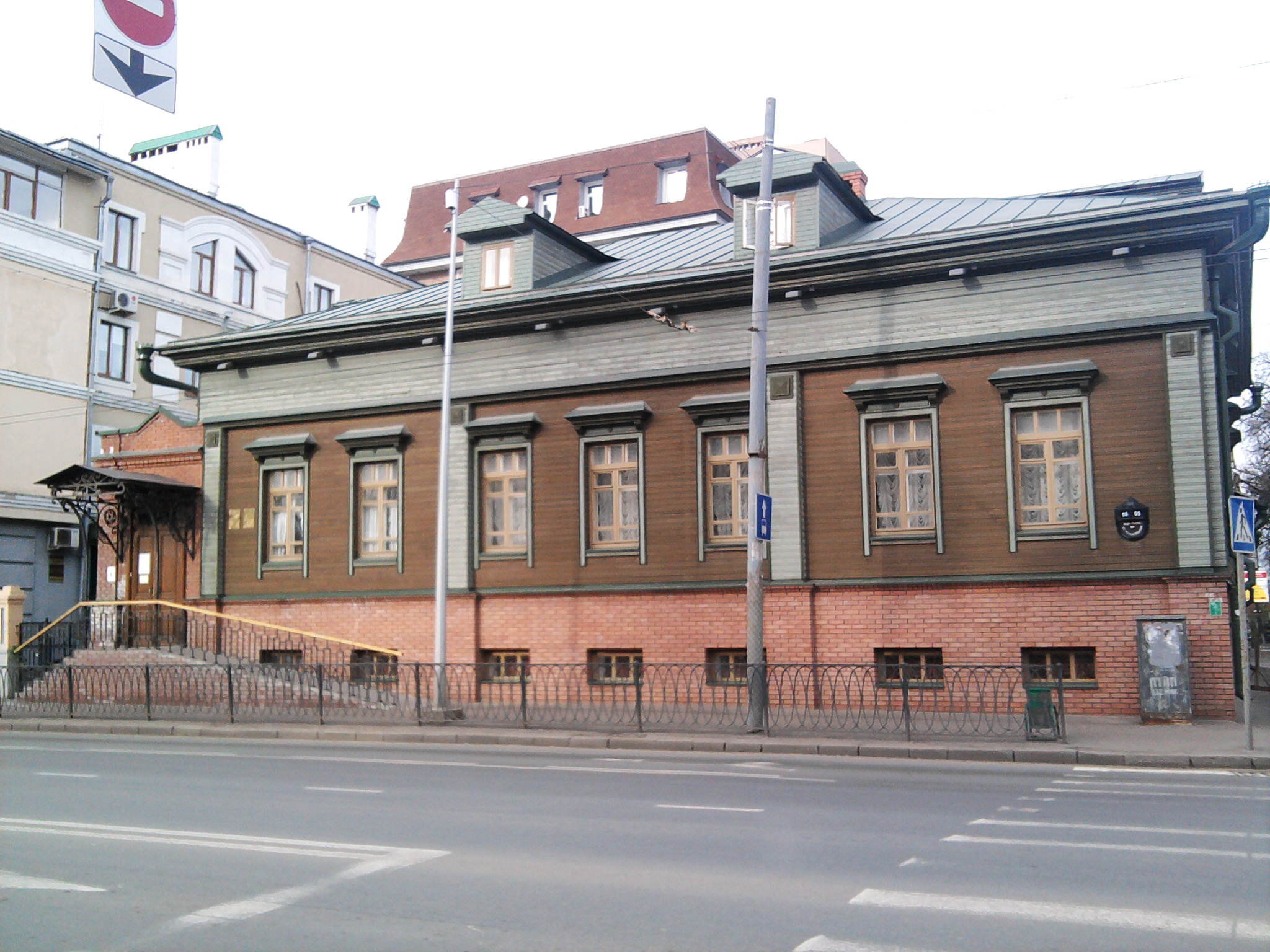 Aksyonov house-museum (Kazan, Russia)